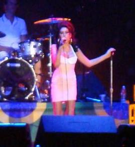 Amy Winehouse performs live on stage at Pacha as part of Summer Soul Festival on January 8, 2011 in Florianopolis, Brazil.